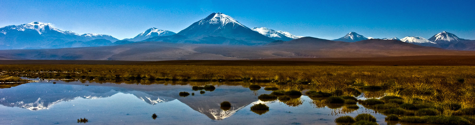 Seen from the Vado de Putana "bofedal" (high plain wetland) FLTR: Volcán Putana, Volcán Curiquinca, Cerro Colorado, Cerro Ojos del Toro Cerro Saciel and Volcán Sairécabur.